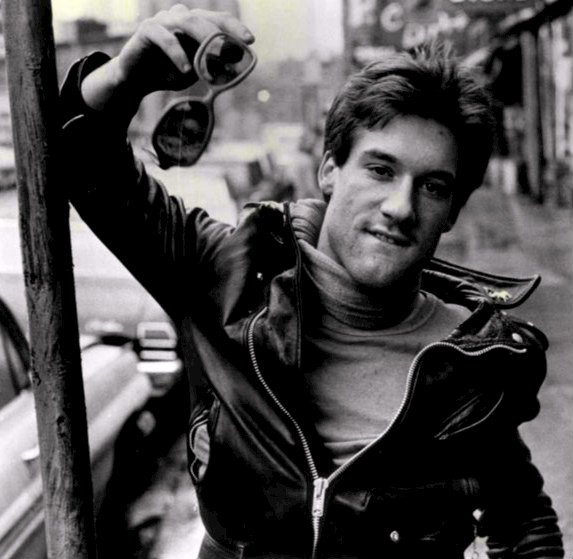 Photo of Lance Loud from the 1973 documentary "An American Family".